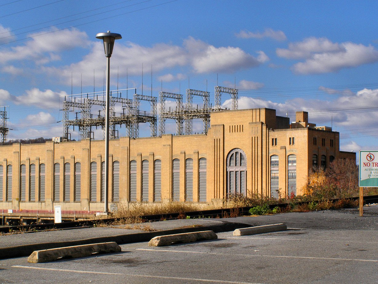 The east end of the turbine hall for the Safe Harbor Dam housing the dedicated 25 Hz turbines for the former Pennsylvania Railroad railroad electrification project.